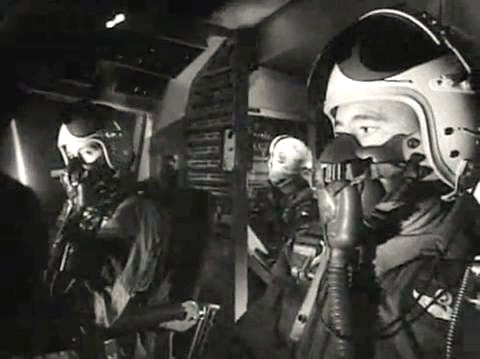 Edward Binns (right) in Fail-Safe - trailer (cropped screenshot)